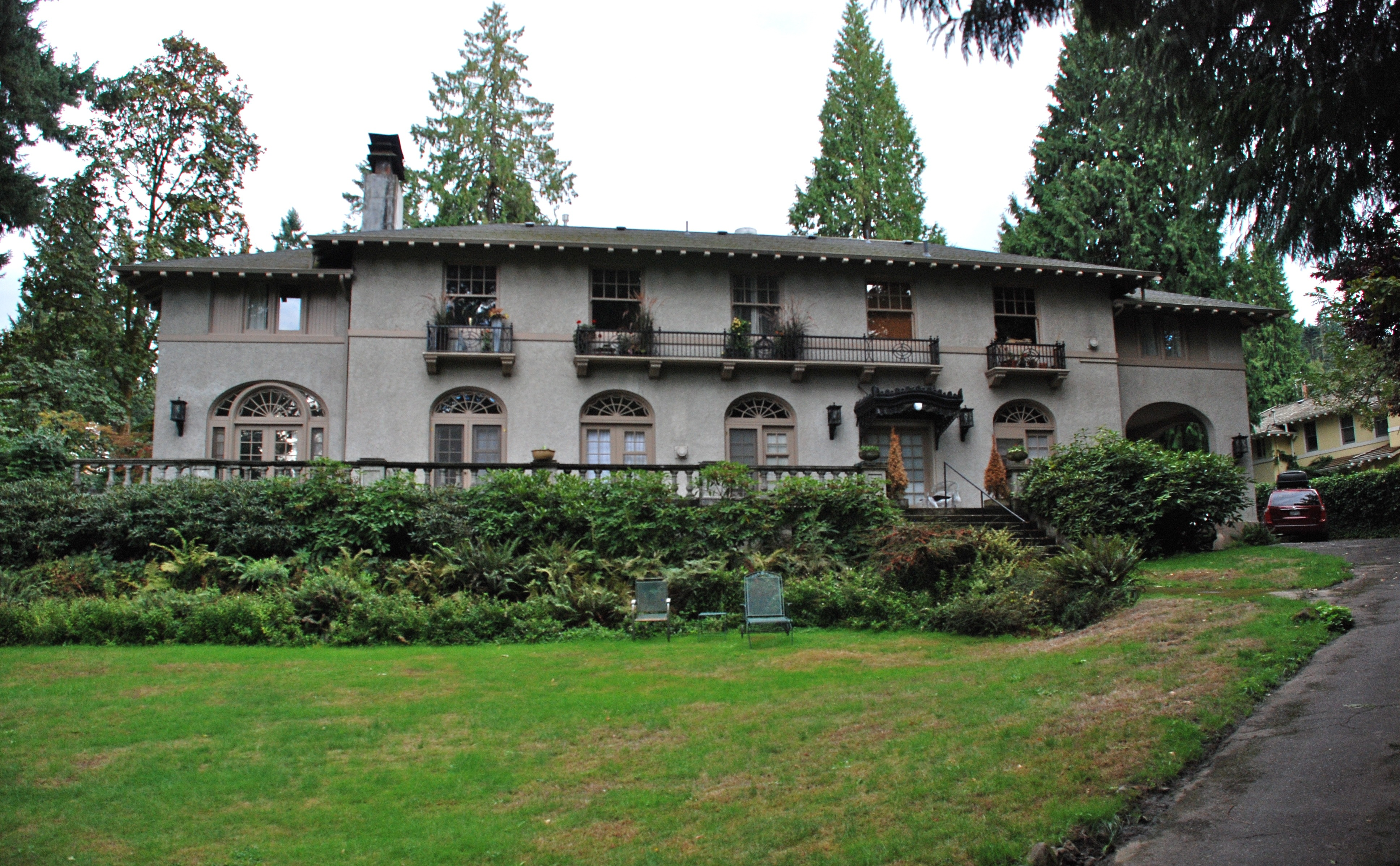 The Dr. A.E. and Phila Jane Rockey House, located in the Portland (Oregon) metropolitan area, in the unincorporated Riverwood area just south of the city of Portland, is listed on the U.S. National Register of Historic Places.